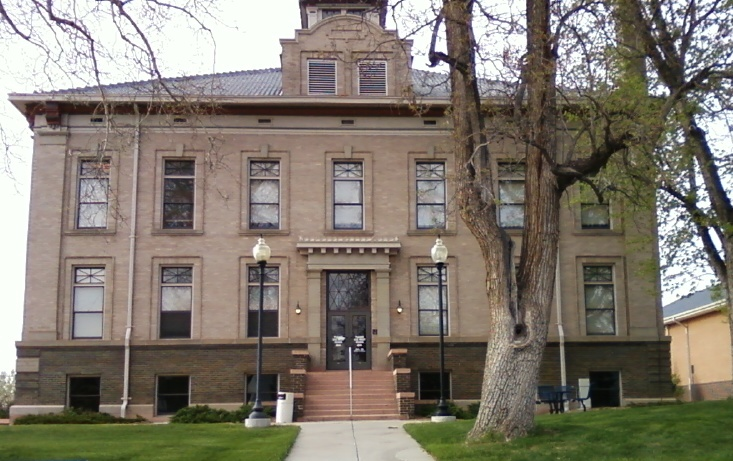 Littleton Municipal Courthouse, formerly The Arapahoe County Courthouse in Littleton, Colorado.